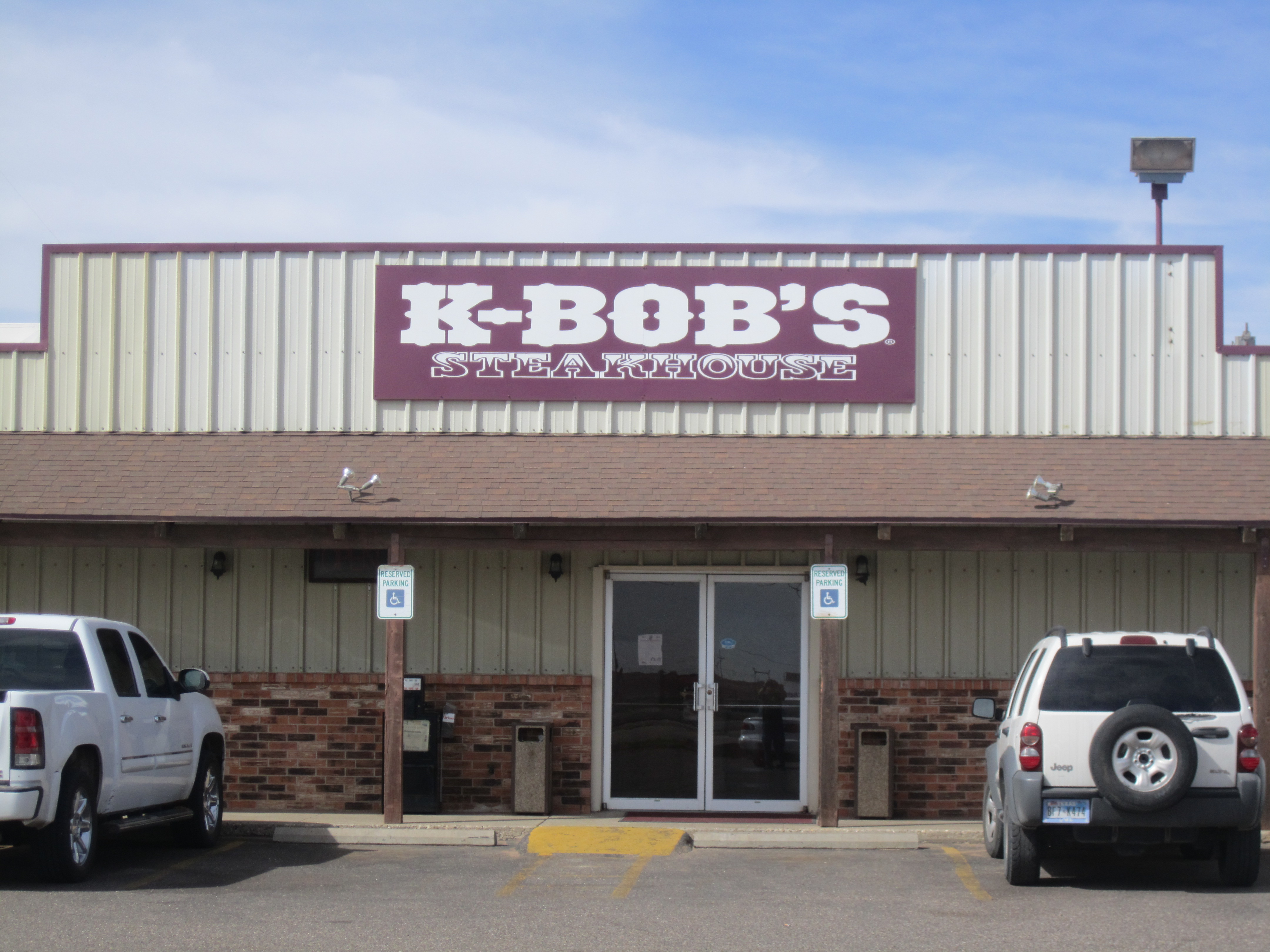 I took photo with Canon camera in Lamesa, TX.